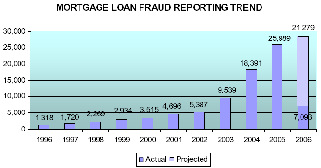 Mortgage Loan Fraud Assessment based upon Suspicious Activity Report Analysis